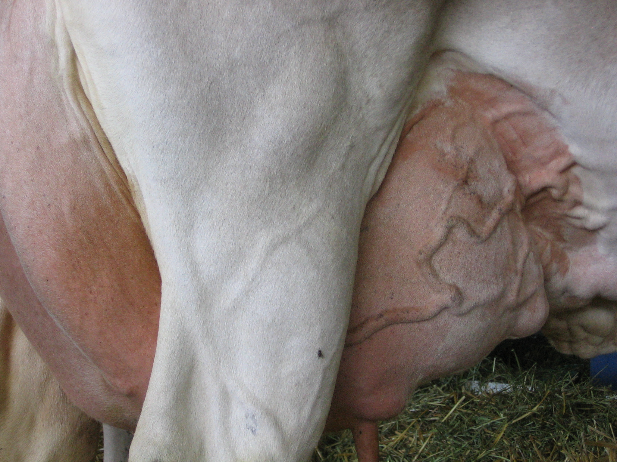 Prominent superficial veins of the udder of a Brown Swiss dairy cow; taken at the 2009 Western Idaho Fair.